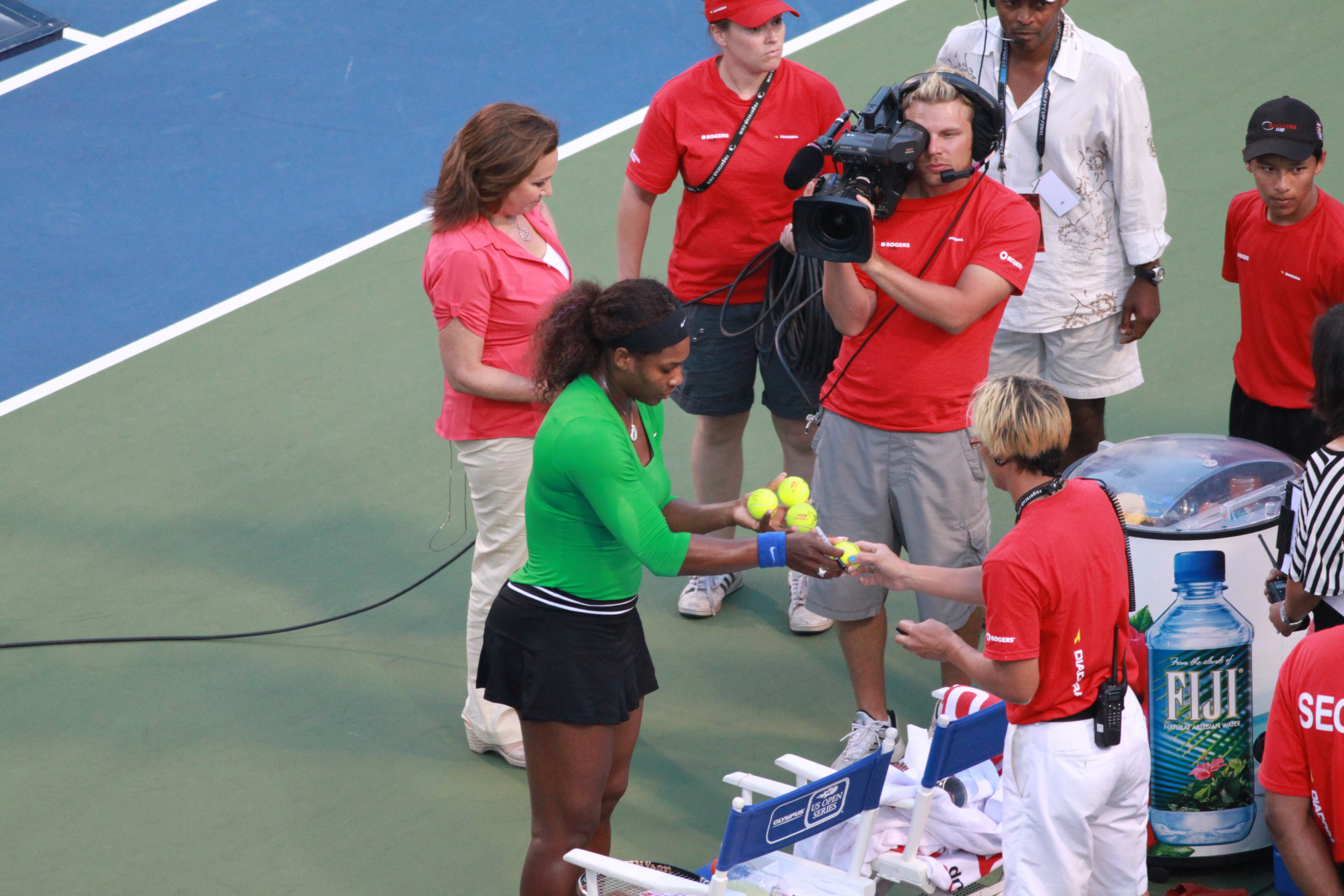 Rogers Cup 2011 Semifinal 2 Serena Williams vs Victoria Azarenka